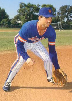 Professional baseball player Howard Johnson